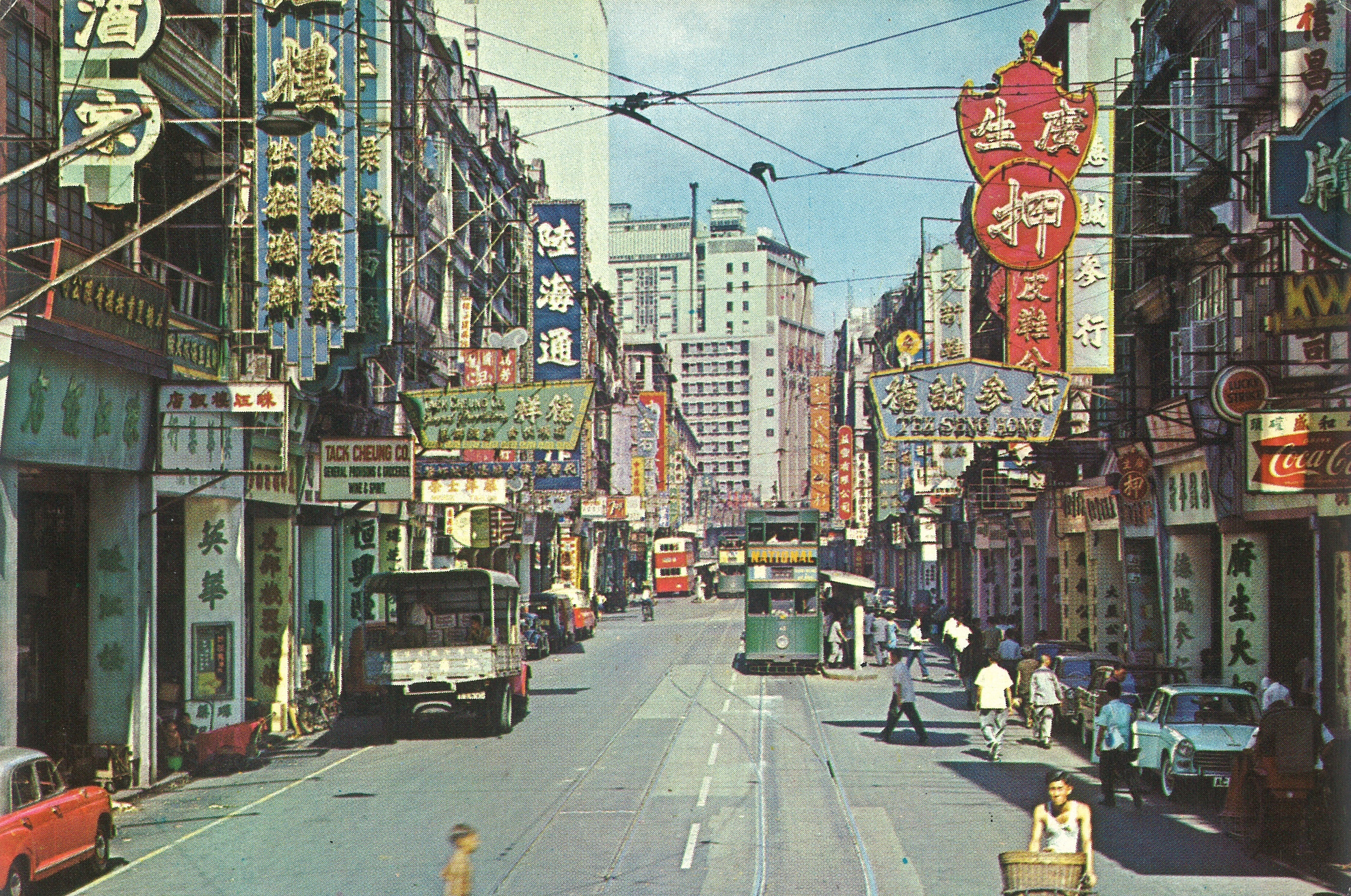 Des Voeux Road Central (Sheung Wan section) in the 1960s.